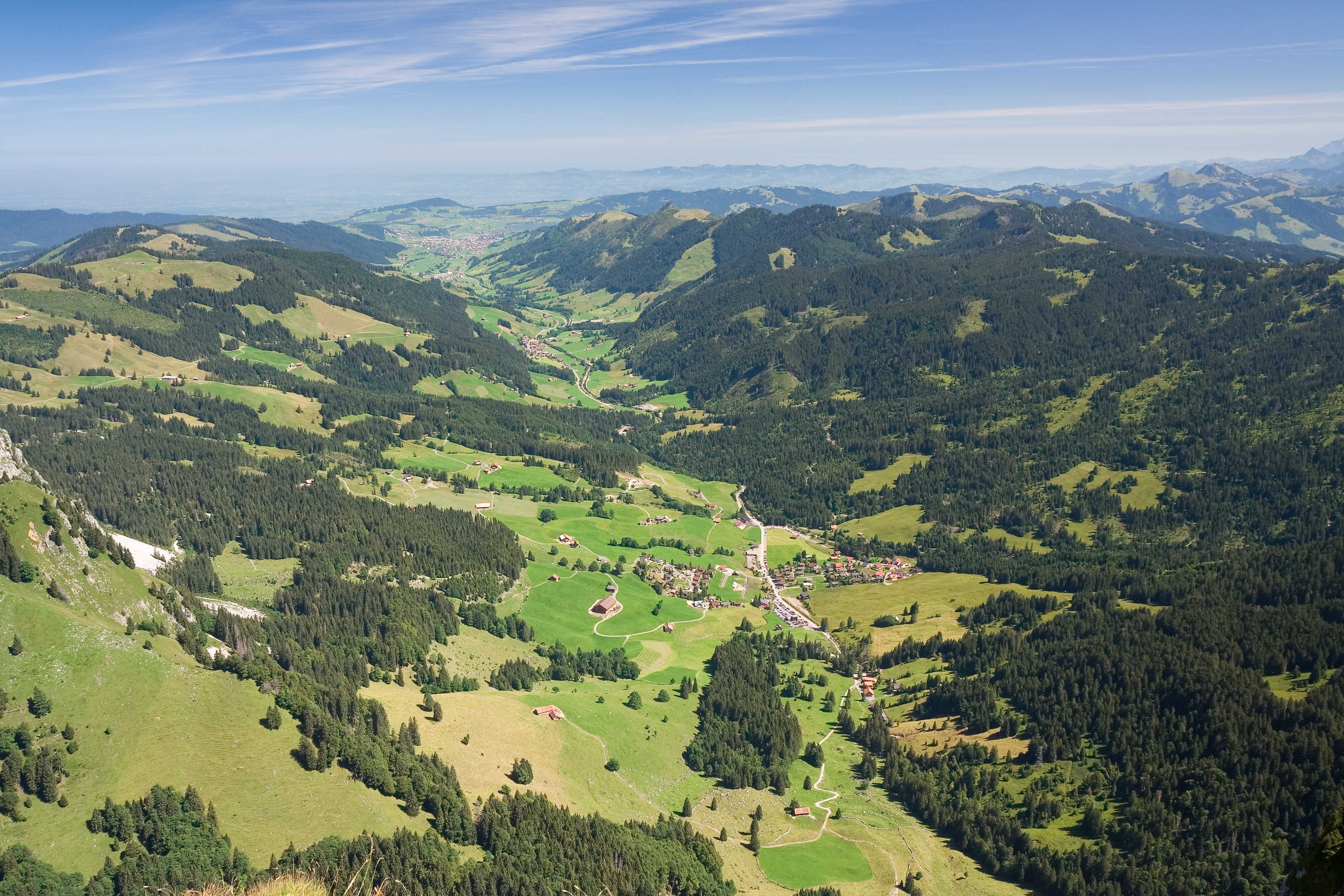 The valley of the Alp river seen from the Mythen mountain. The settlements in the valley are (from nearest to furthest) Brunni, Alpthal, Trachslau and Einsiedeln.